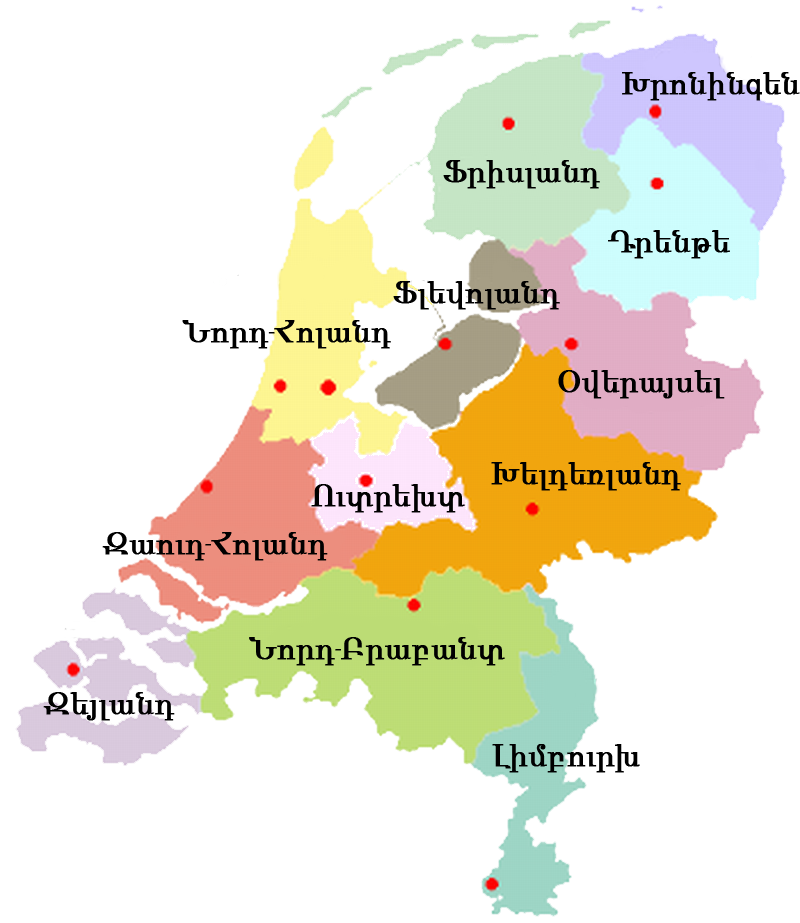 Provinces of the Netherlands (Armenian version)